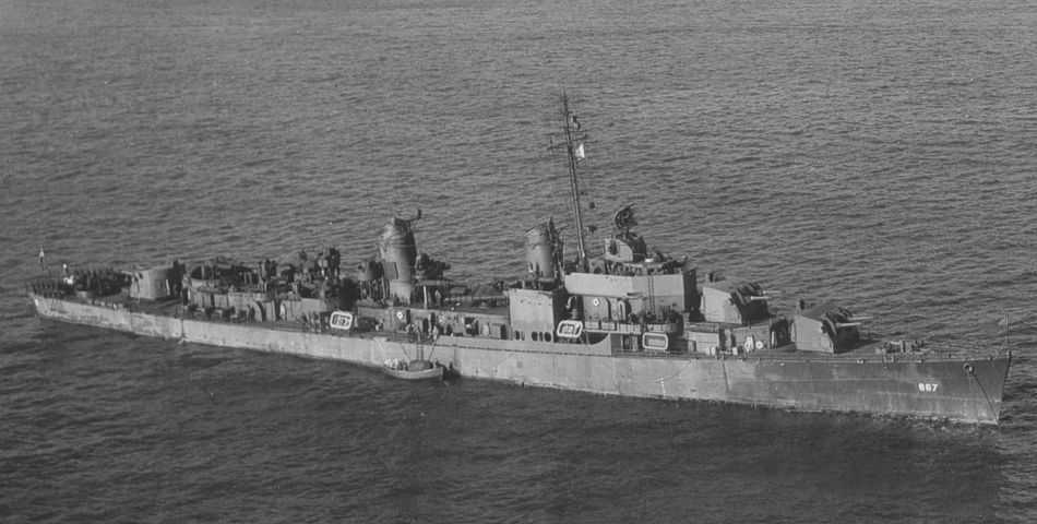 The U.S. Navy destroyer USS Stribling (DD-867), probably shortly after her commissioning (29 September 1945). She is painted in wartime Camouflage Measure 21.